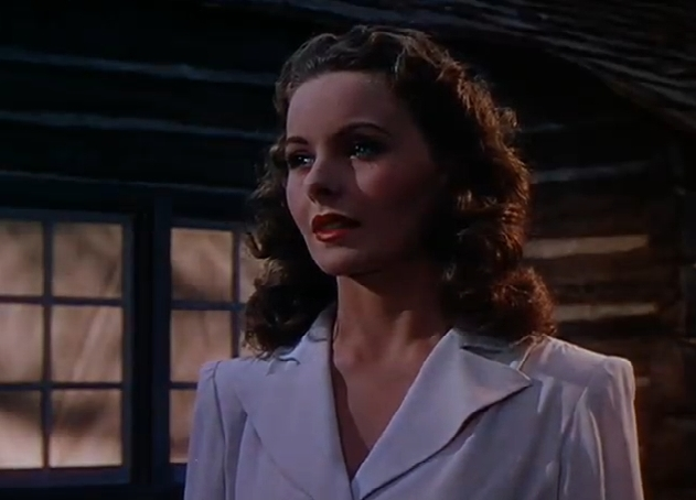 Screenshot of Jeanne Crain from the film Leave Her to Heaven.